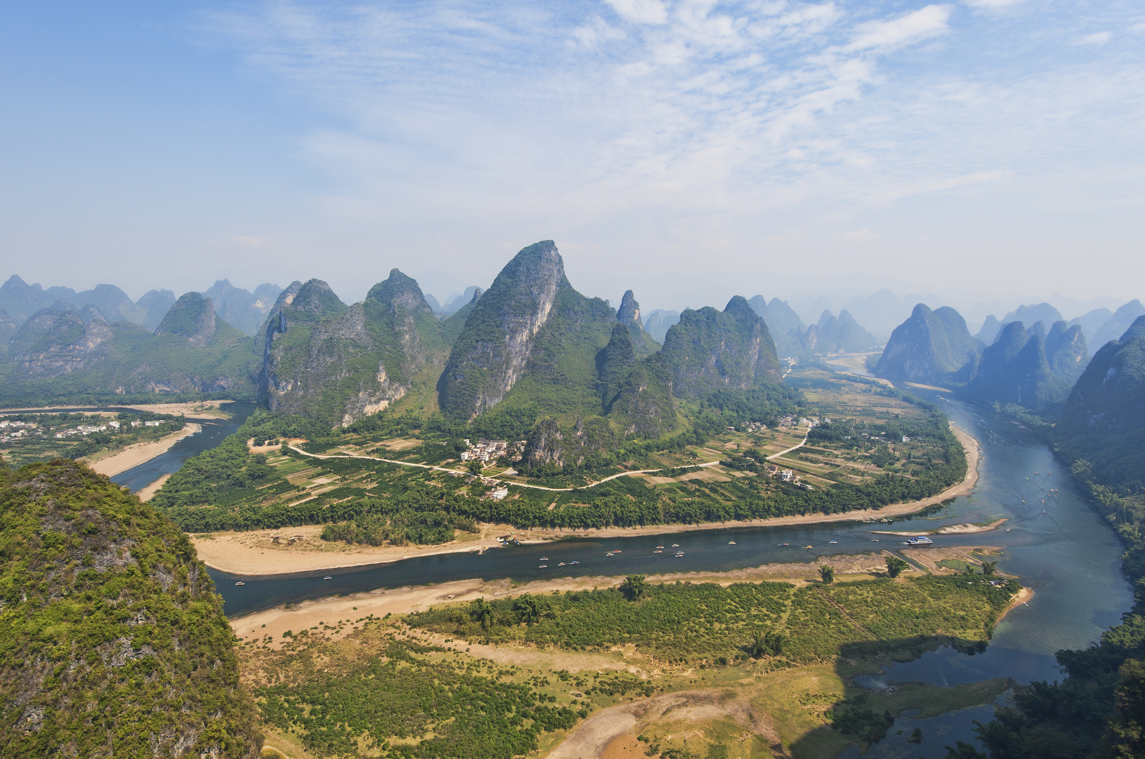 li jiang li river guilin yangshuo china 2011 karst raft